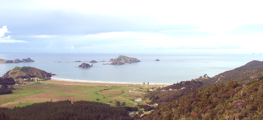 Photo taken for Wikipedia by User:Moriori and released PD